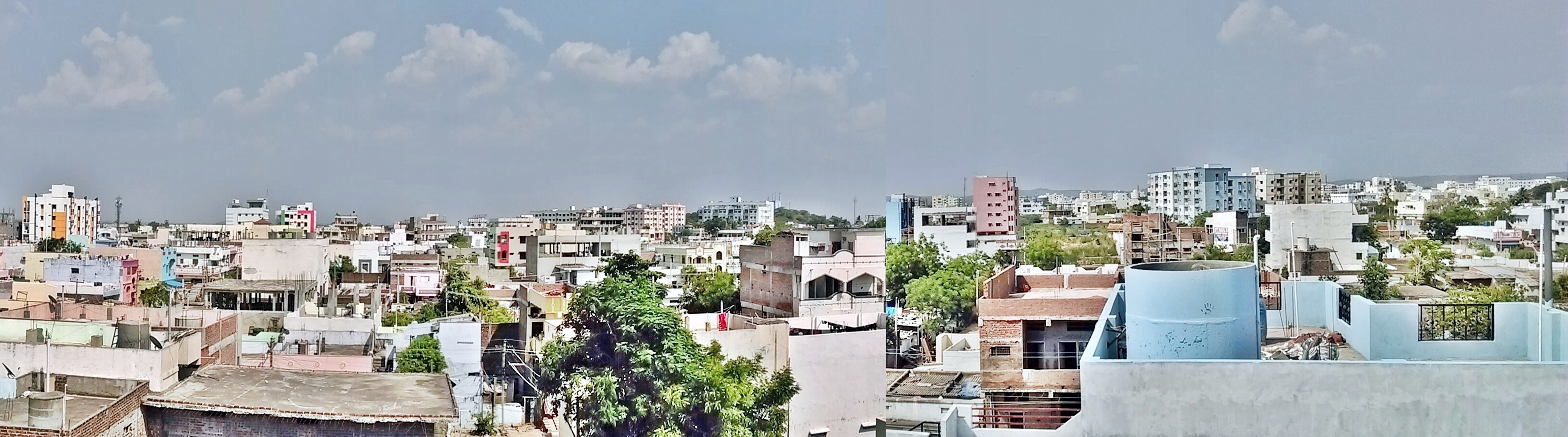 The eastern area of Nizamabad city comprises of Kanteshwar, Gangastan Phase 1,2 and 3 and Chandrashekar Colony.